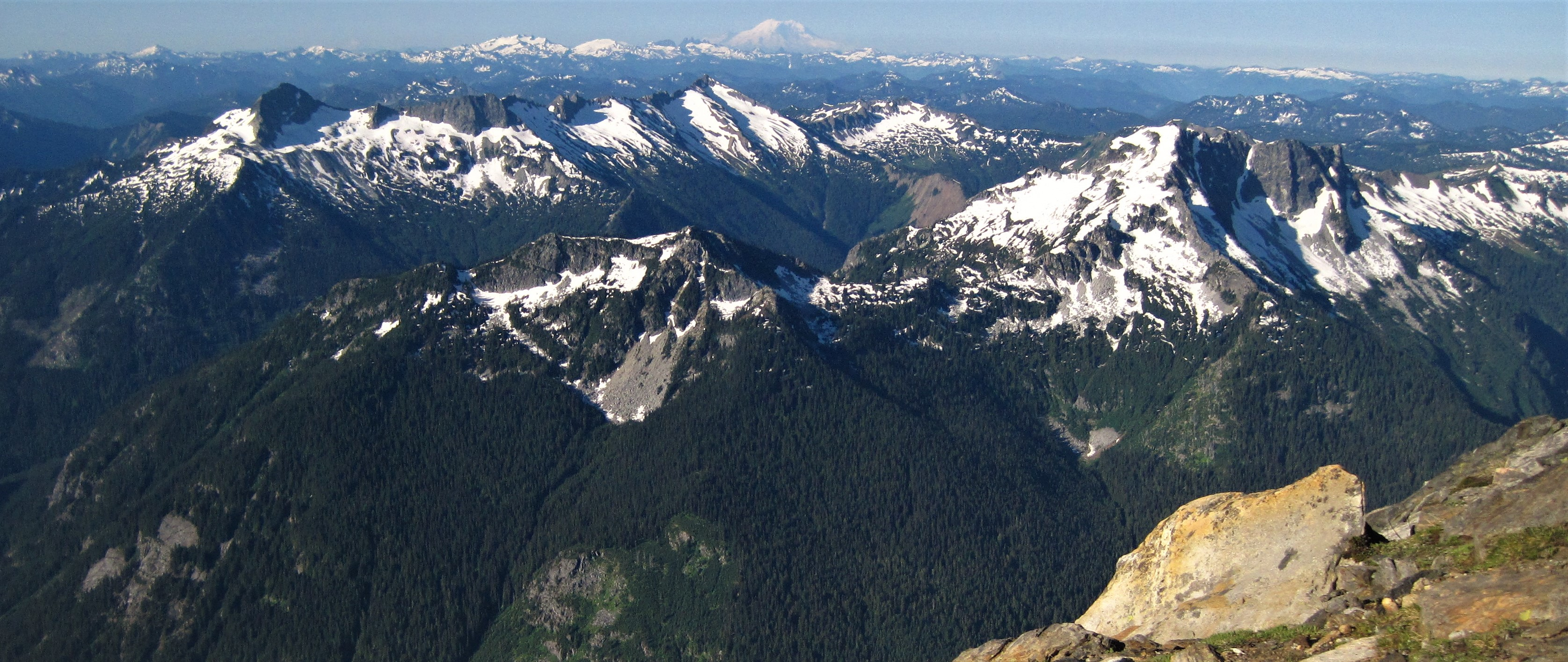 view from Clark Mountain showing David, Jonathan, Whittier, Saul